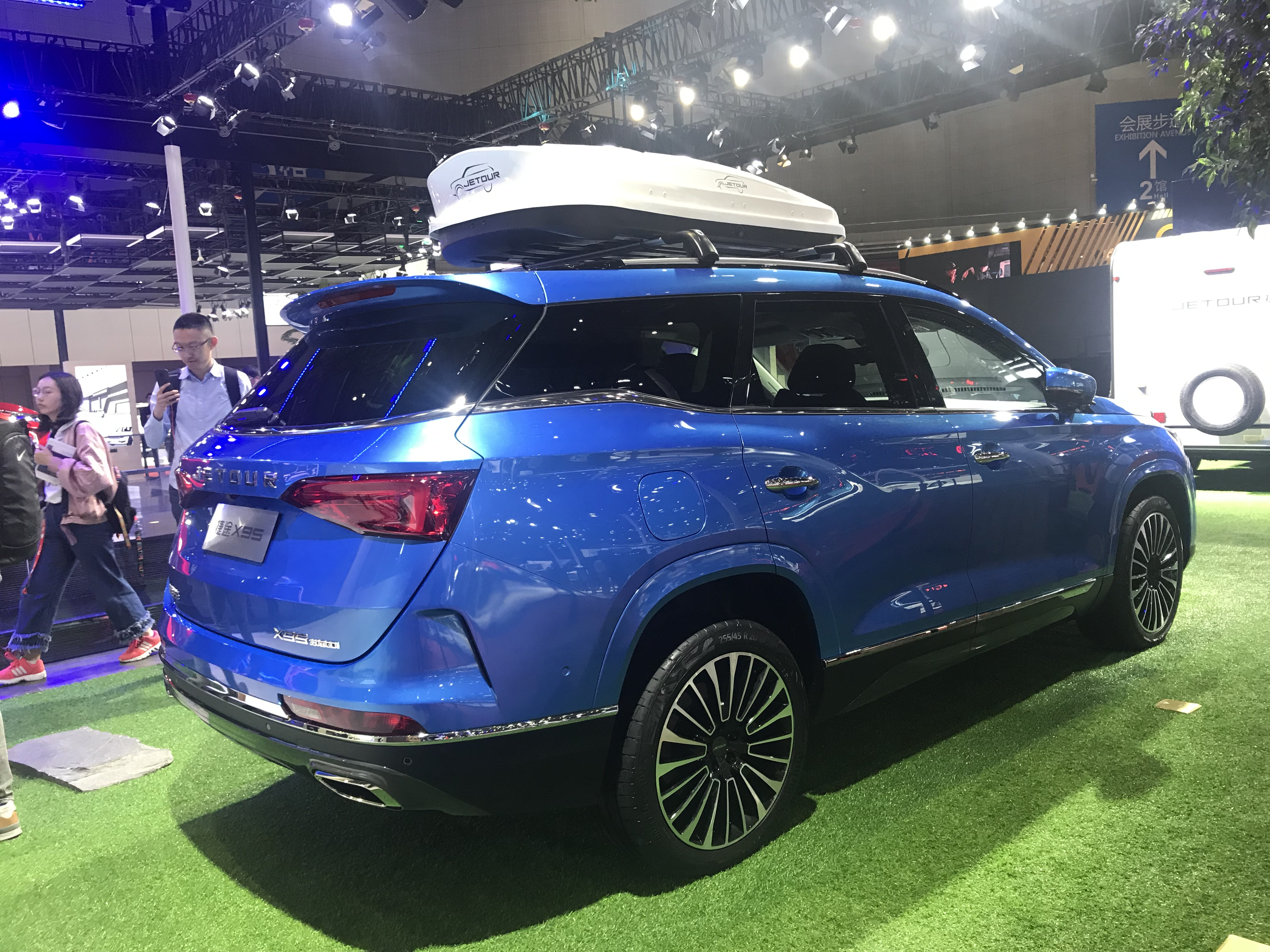 Jetour X95